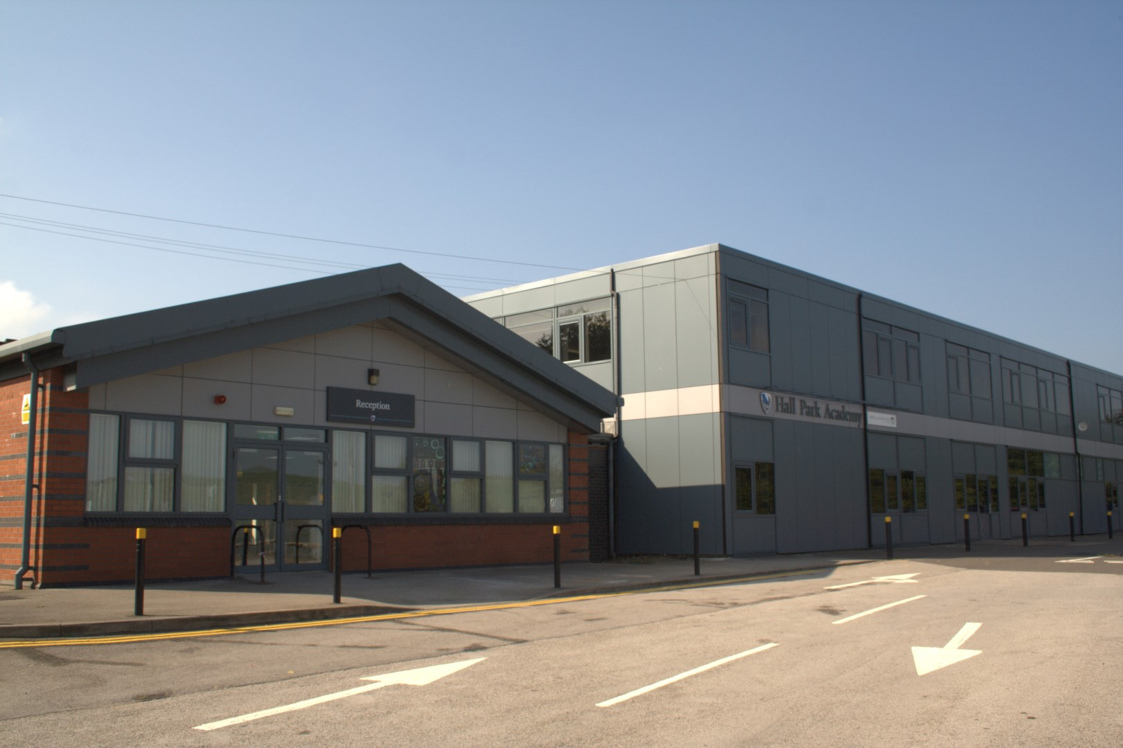 Photograph of the exterior of Hall Park Academy showing the main reception area and part of the school building.